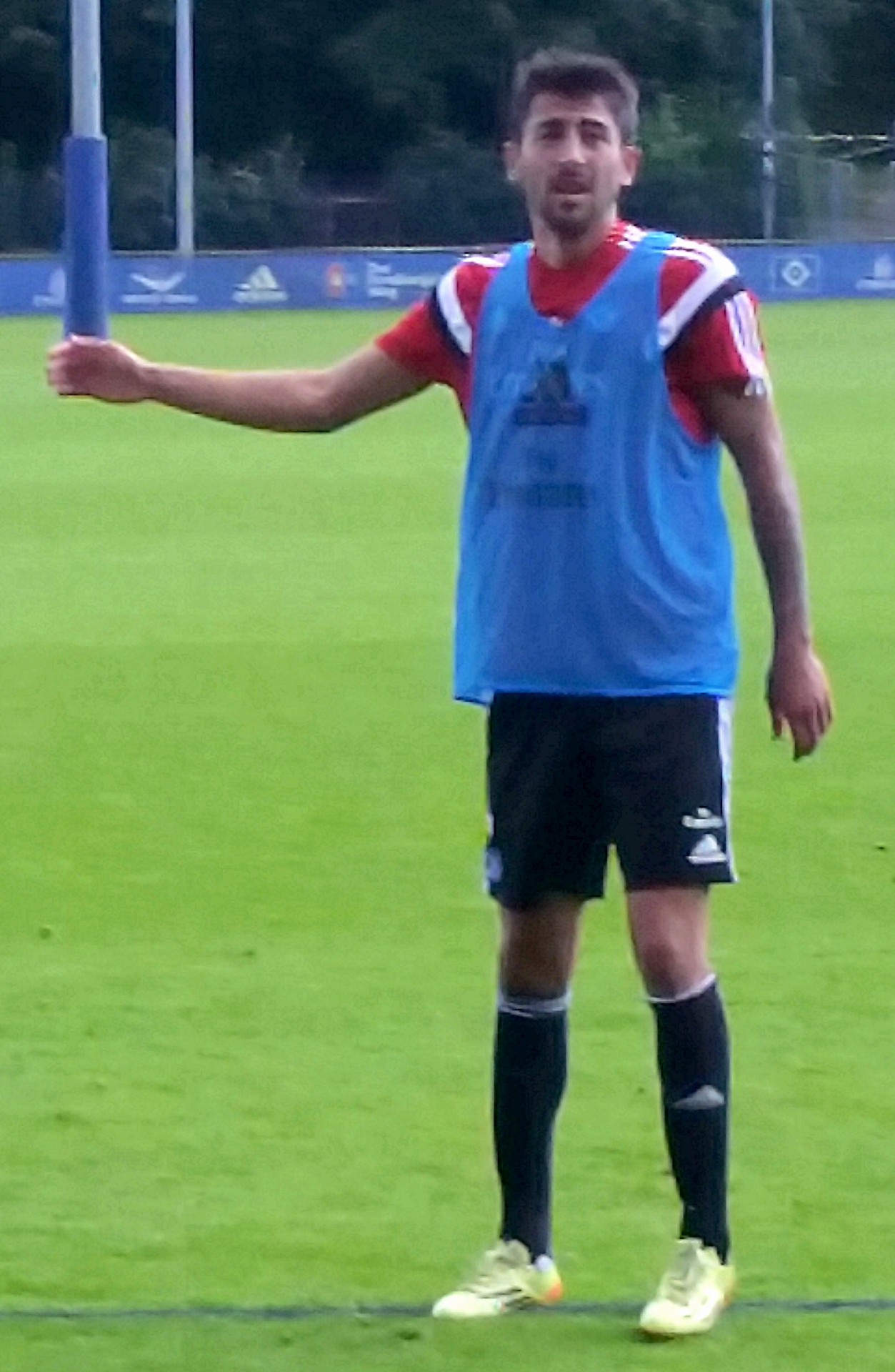 Kerem Demirbay at HSV-Training